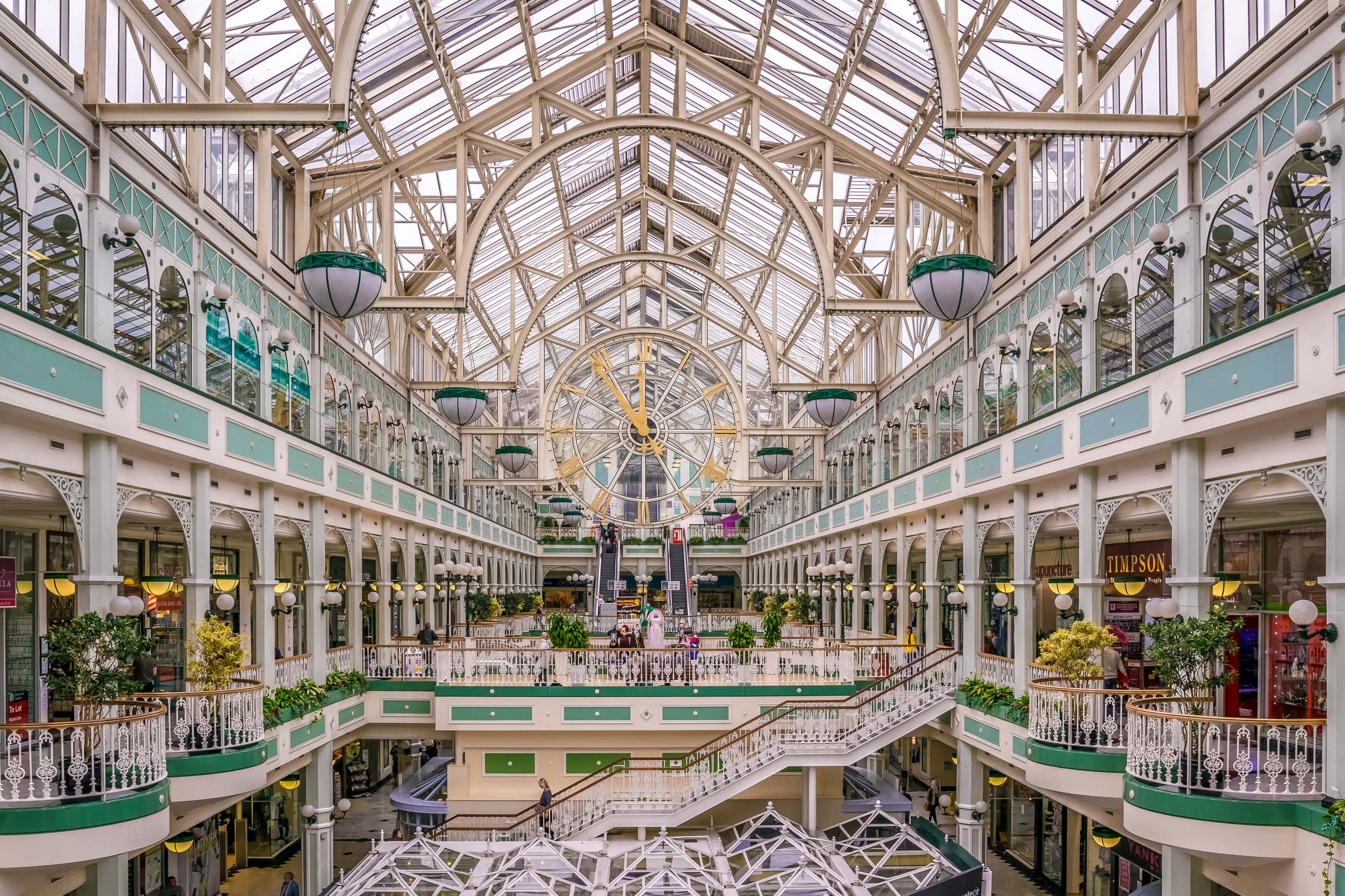 photo of the interior of stephen's green shopping centre 2015